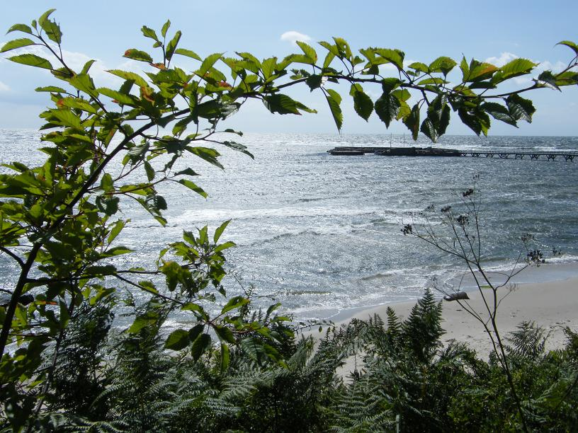 Harbour of Arnager 2 (Bornholm)